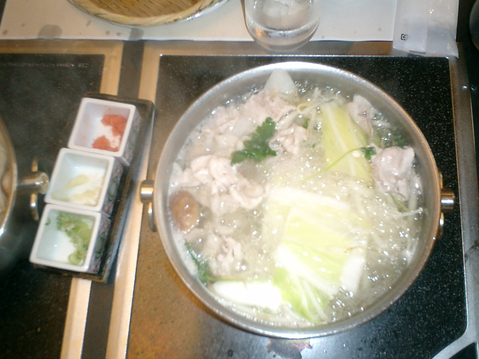 Shabu shabu, Yokohama, Japan